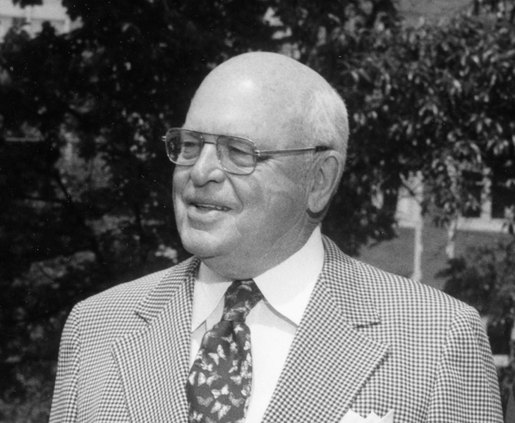 Portrait of Frank Mayborn